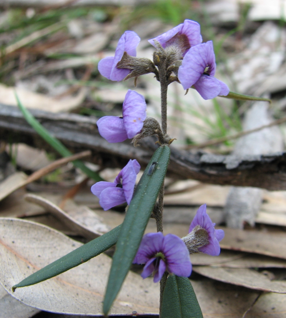 Hovea linearis Belgrave South, Victoria, Australia